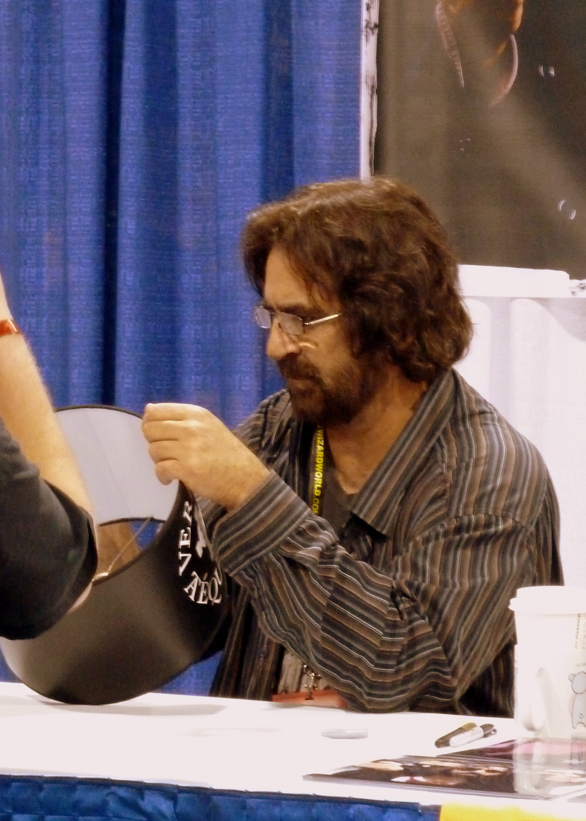 David Della Rocco at Wizard World Chicago in 2012.